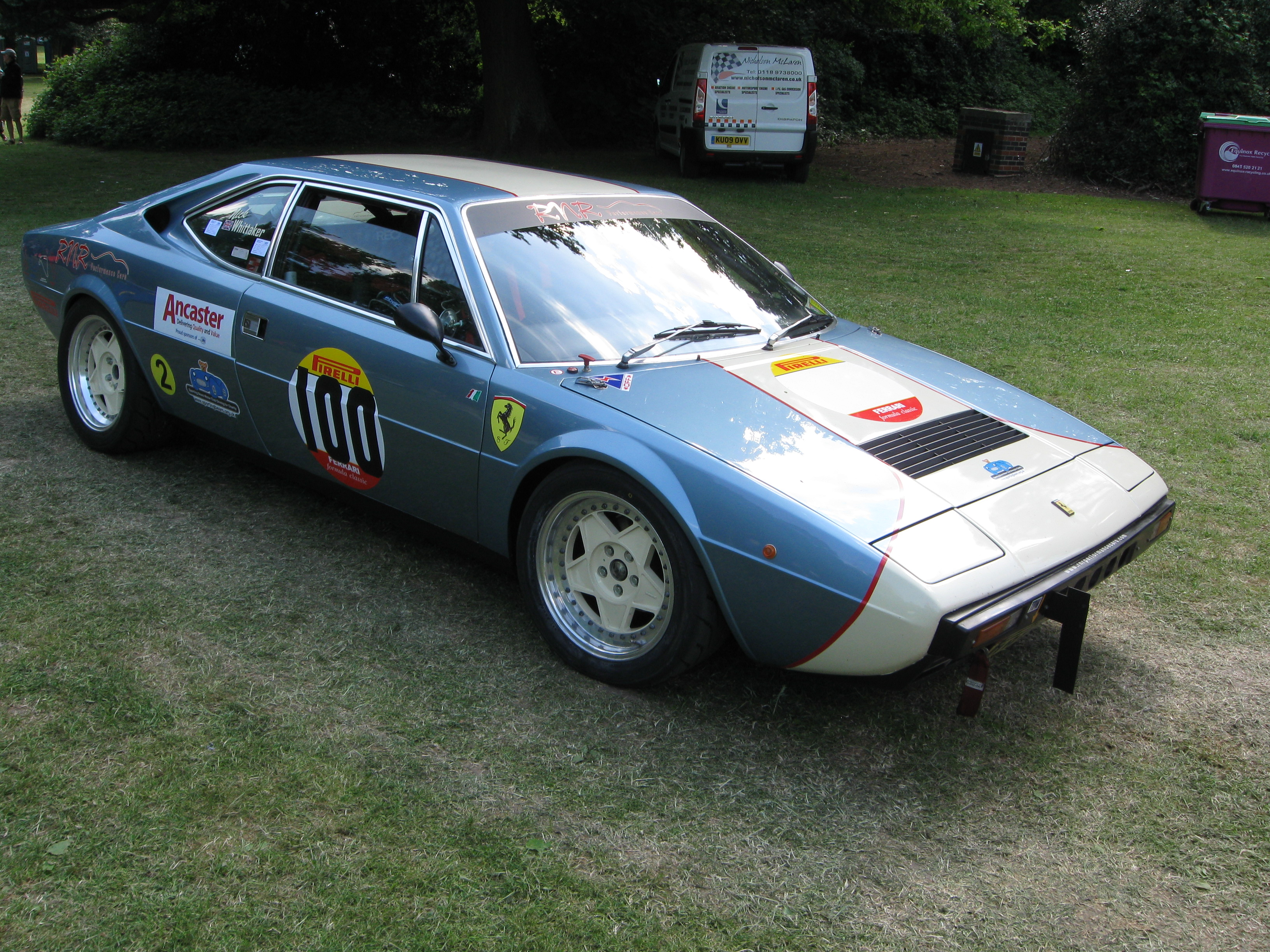 Ferrari 308 GT4 at Crystal Palace circuit in 2013